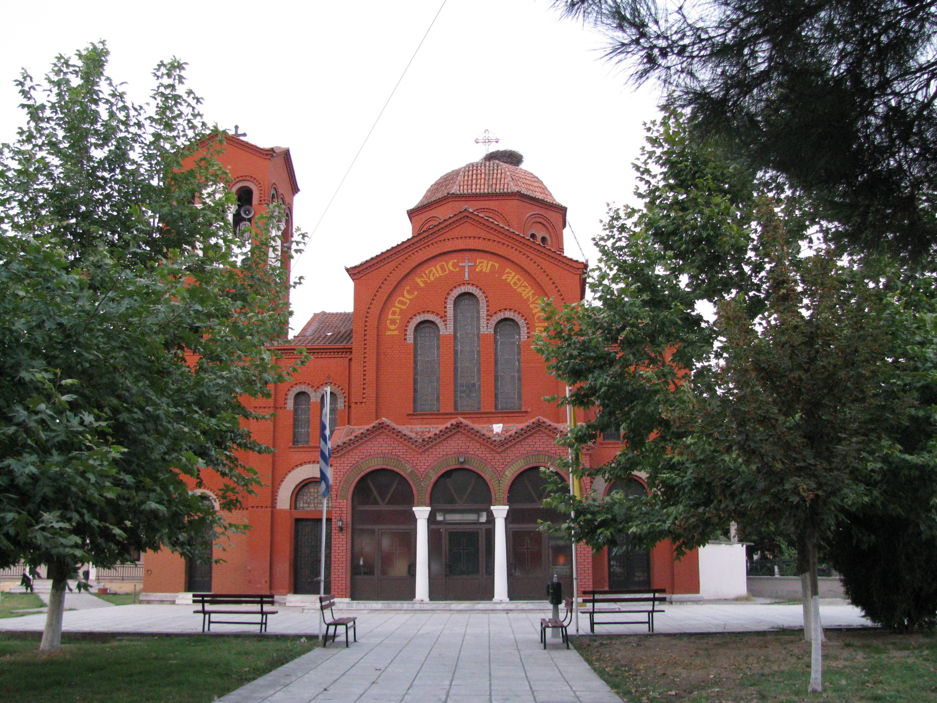 Church in Galatades, Pella prefecture, Greece